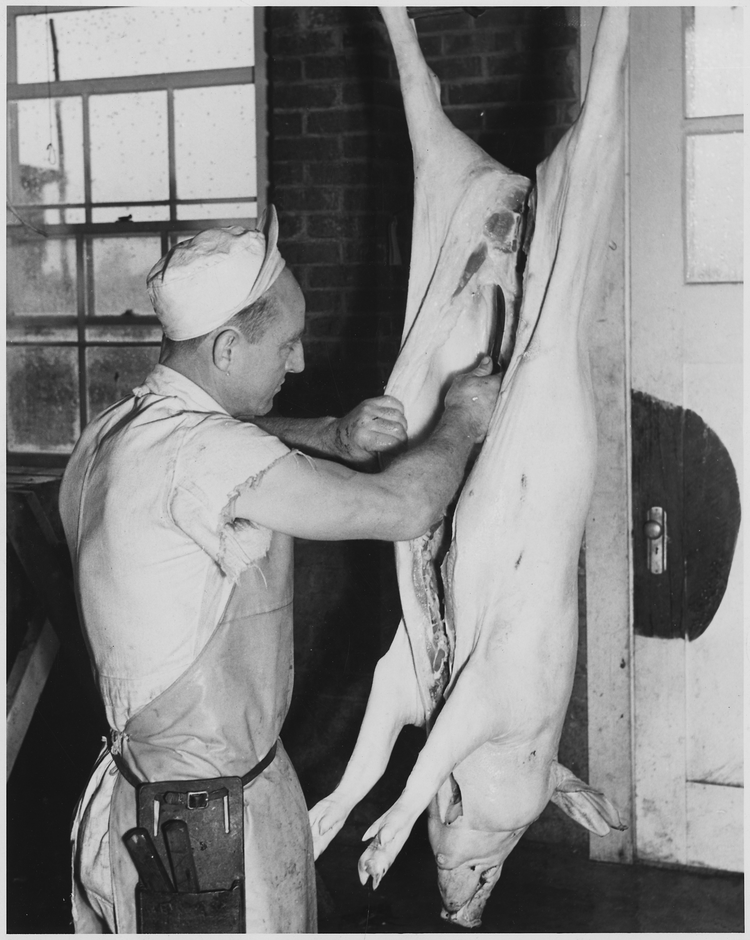 Scope and content: Full caption reads as follows: Newberry County, South Carolina. Dressing a hog at the P and M Packing Company. An average of about 70 hogs per week is slaughtered at this plant, about 75% bought from the farmers in Newberry County. The remainder are purchased in Columbia and Augusta. In addition to killing hogs purchased this packing plant kills and cures a great many animals for the public.